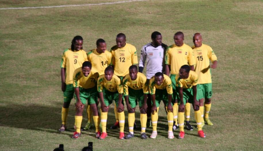 Zimbabwe national football team, match Thailand vs Zimbabwe